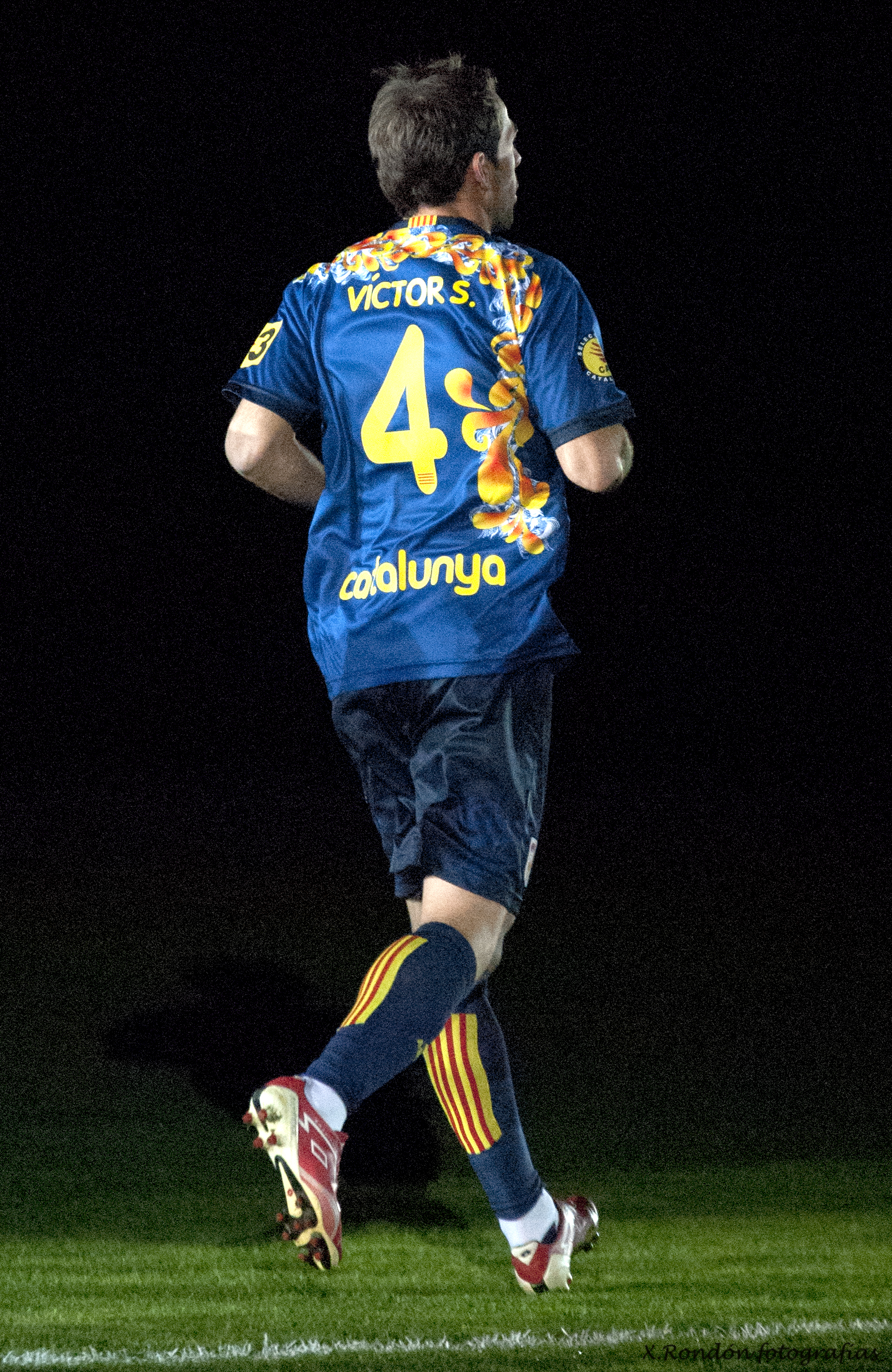 Víctor Sánchez Mata before friendly match Catalonia vs. Nigeria